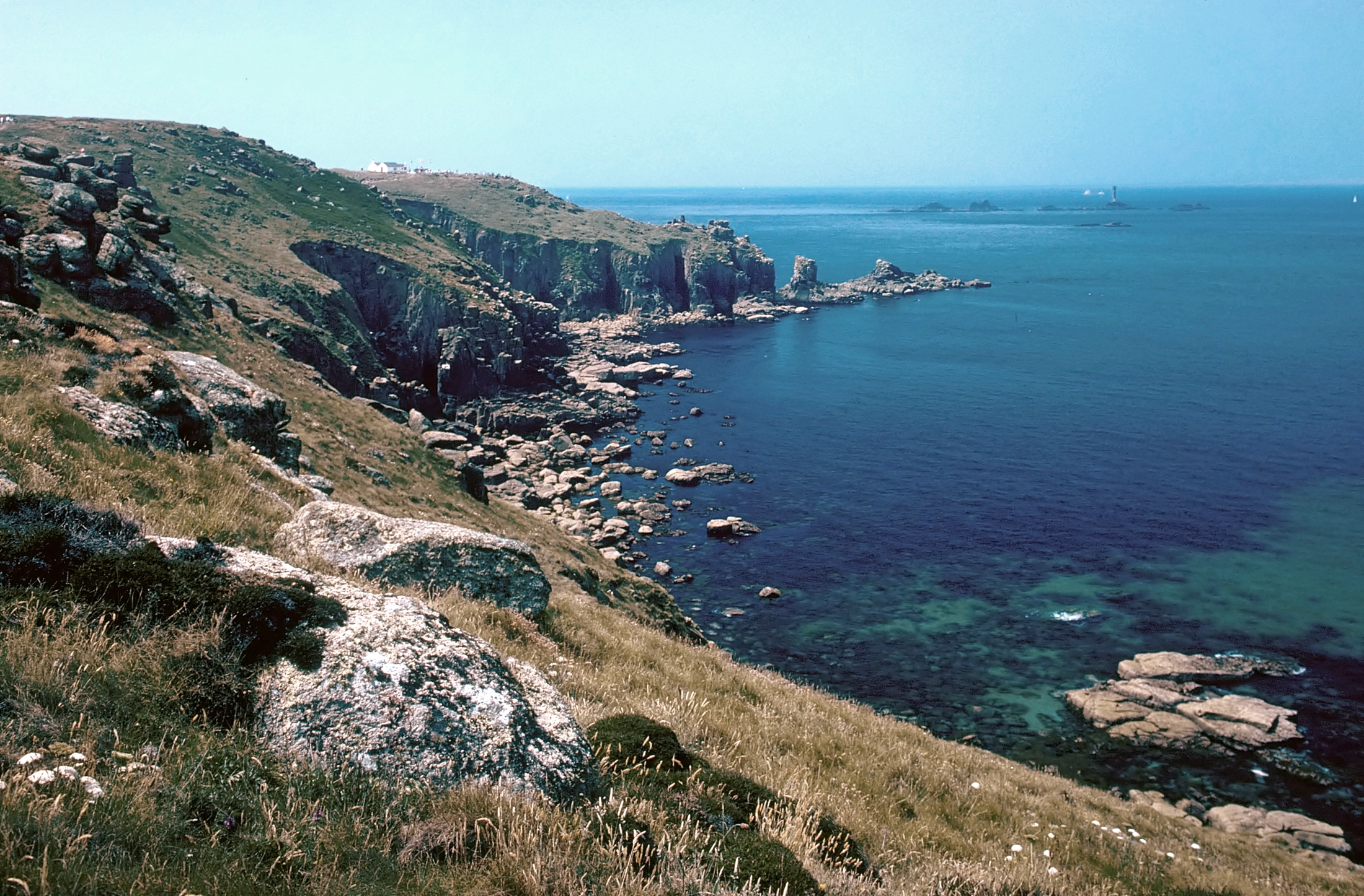 Lands End, Cornwall/UK